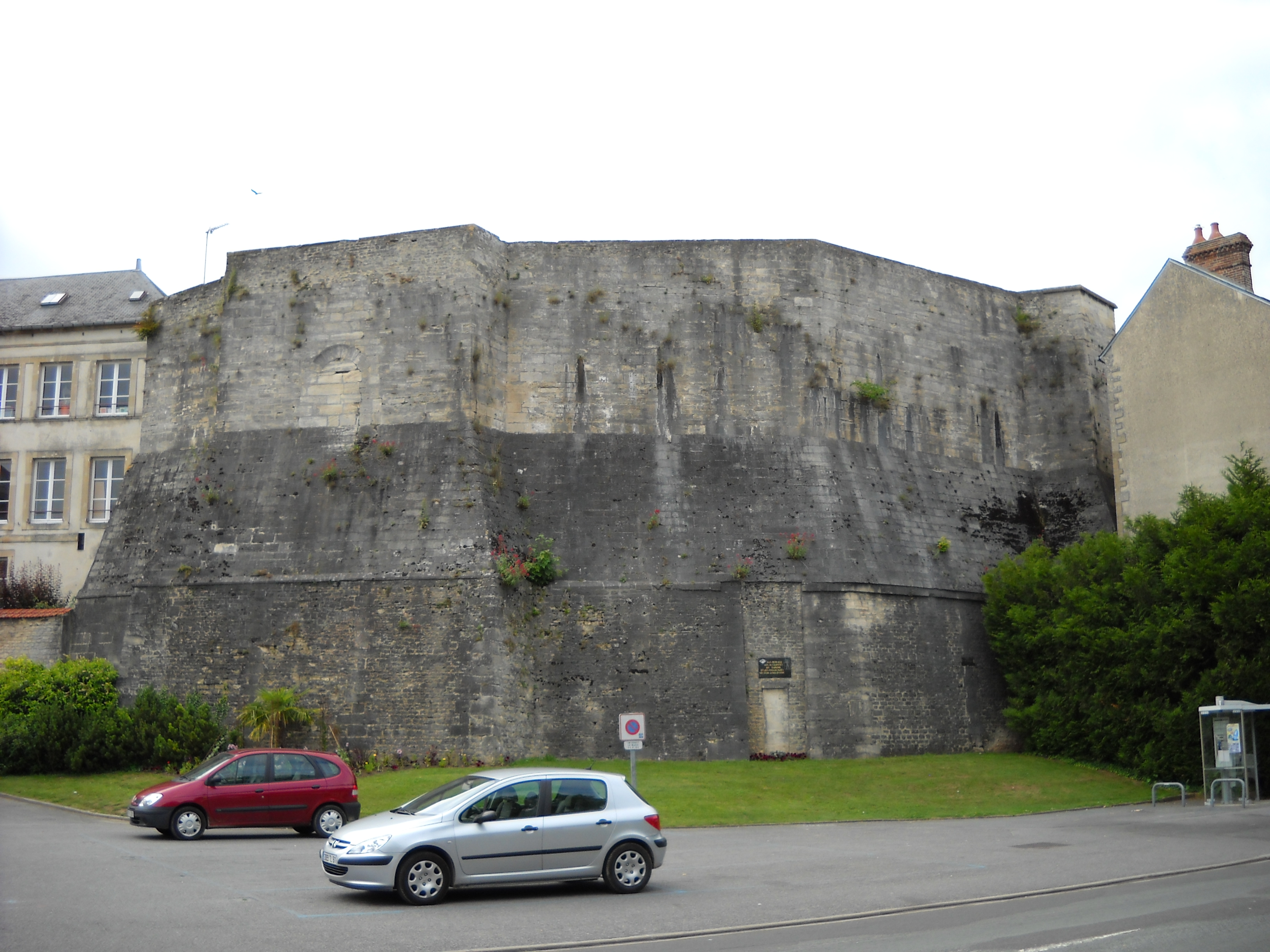 A vestige of the 12th century fortress of Argentan, Orne, France.